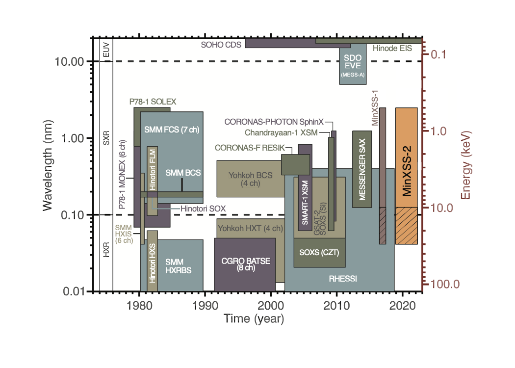 A history of missions and instruments that have observed the sun's soft x-ray spectra. Broad spectral band instruments such as GOES/XRS are not shown.